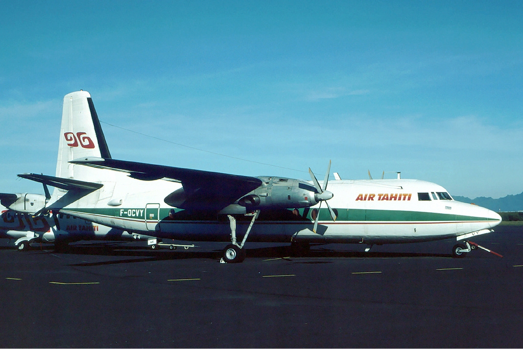 Air Tahiti Fairchild F-27A